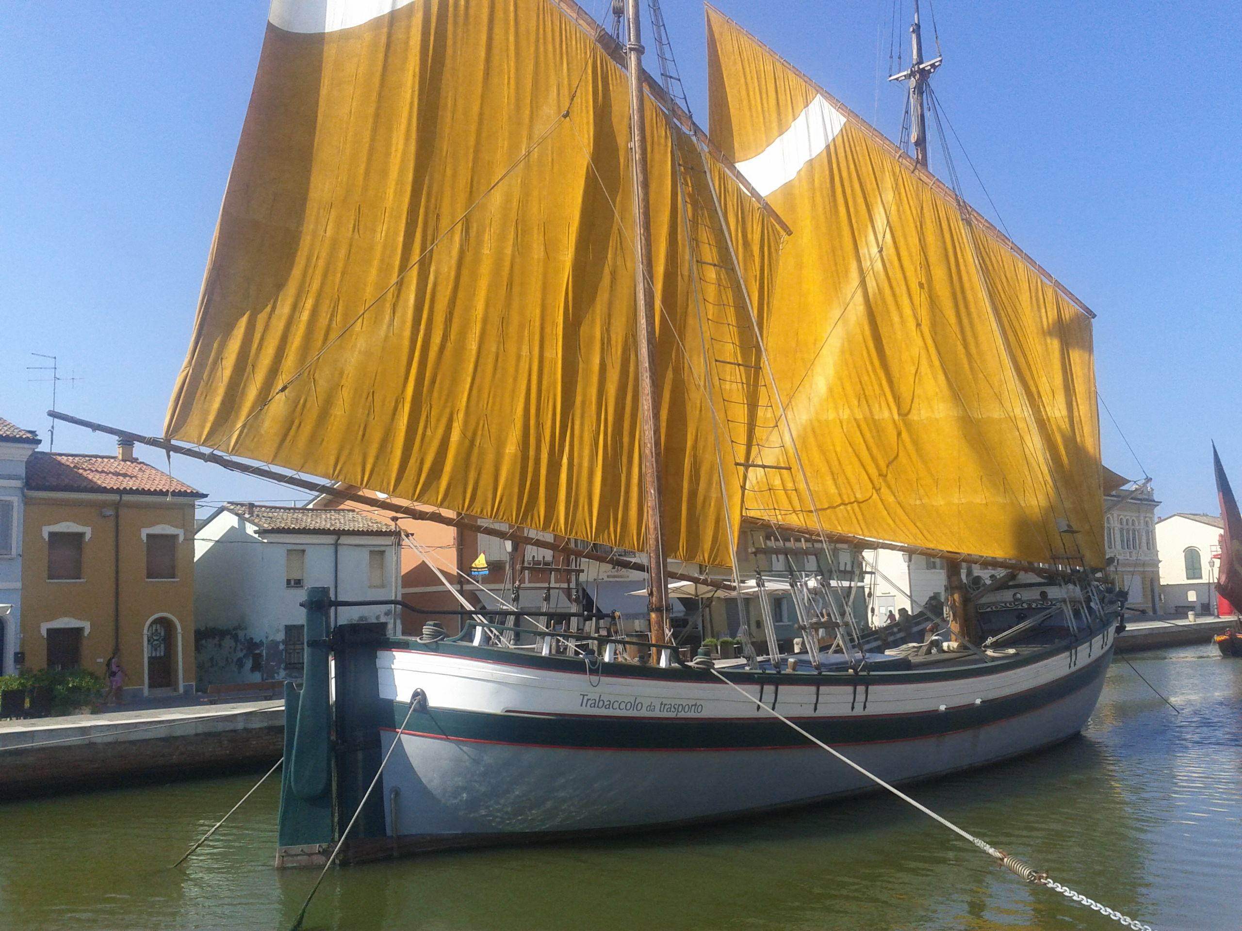 A Trabaccolo (historical boat) at the "Museo della Marineria" of Cesenatico (Italy)